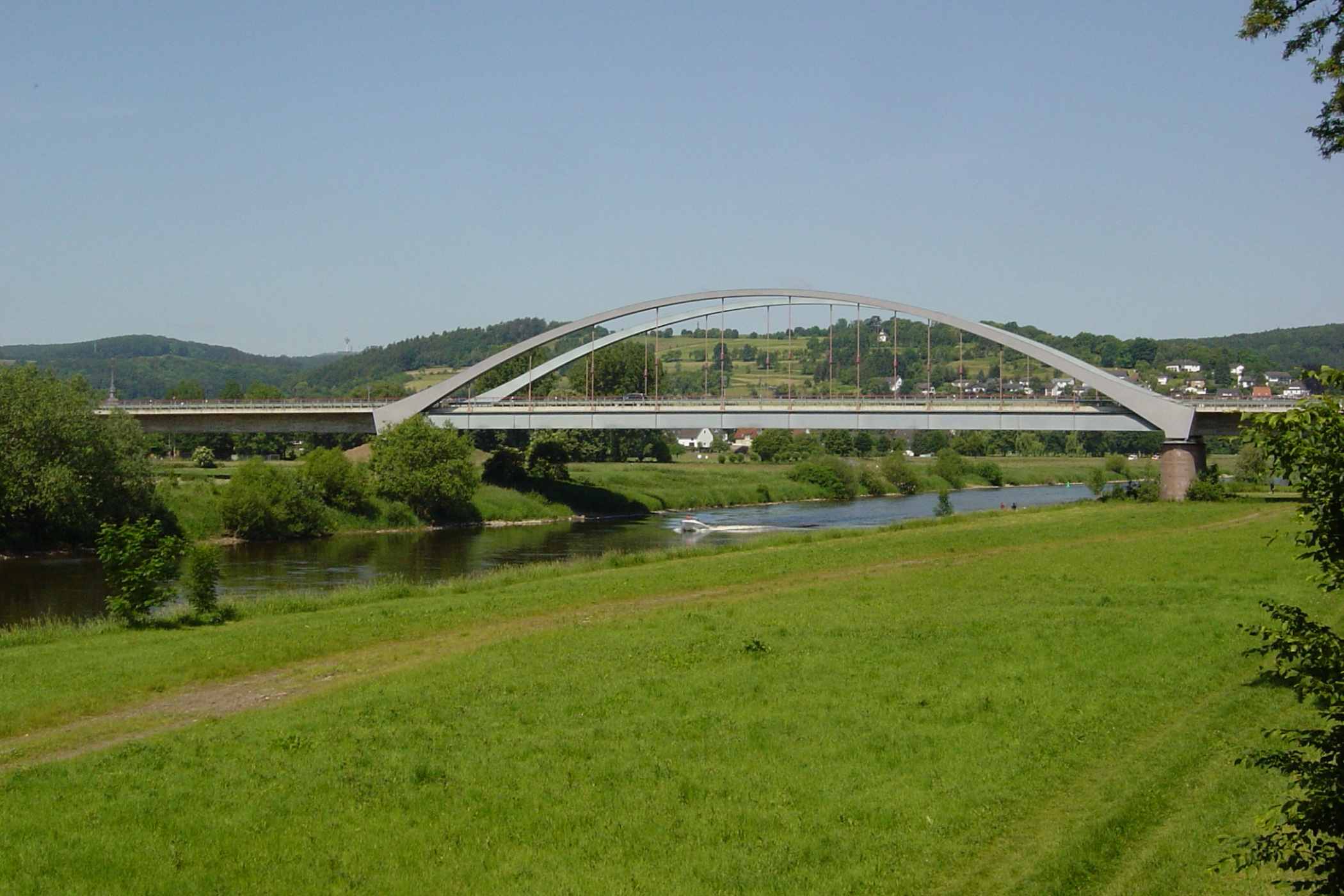 New Weser Bridge Holzminden (Germany)